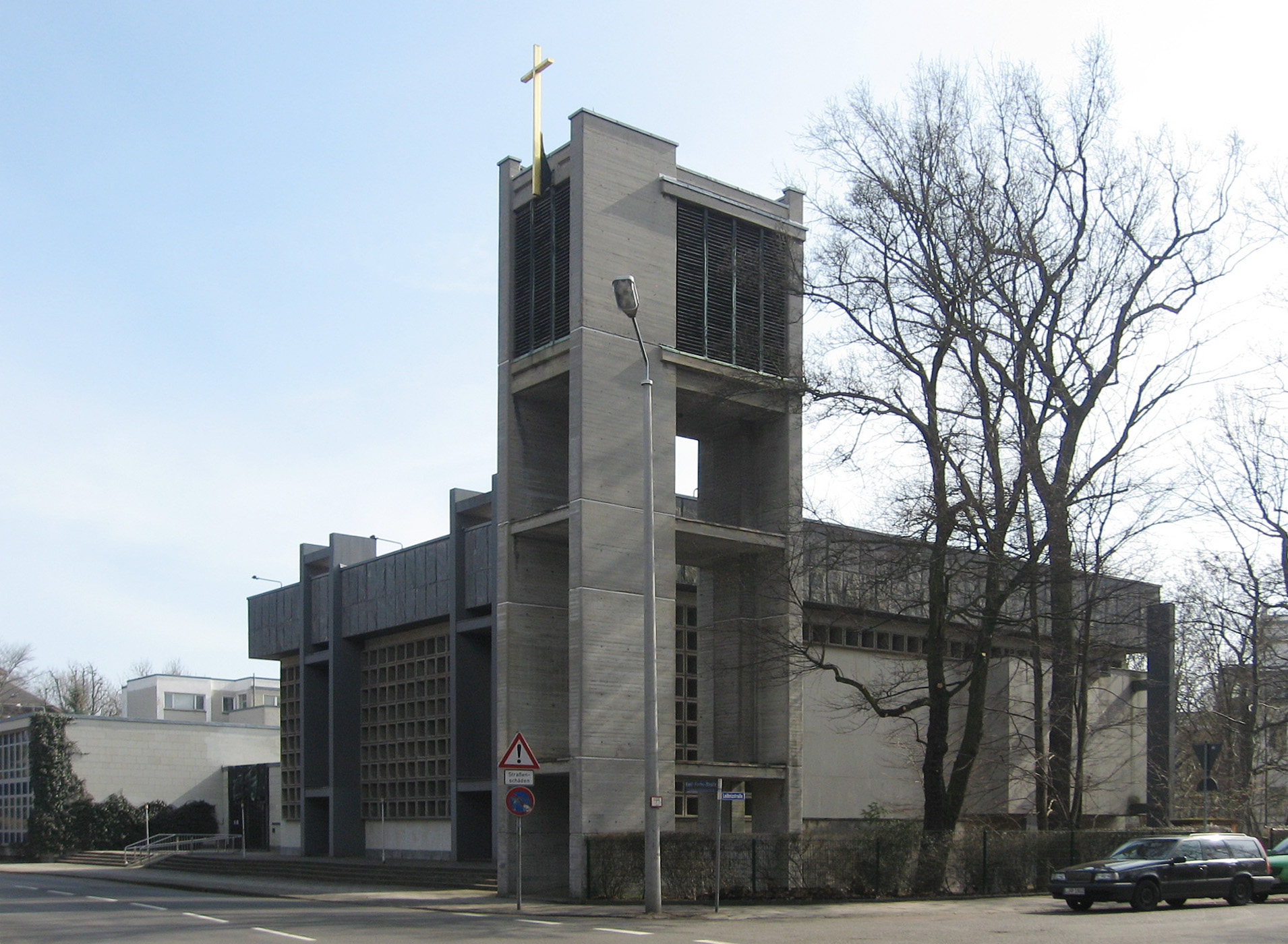 Community center of the Provost's Church of the Holy Trinity in Leipzig, Emil-Fuchs-Strasse 5—7